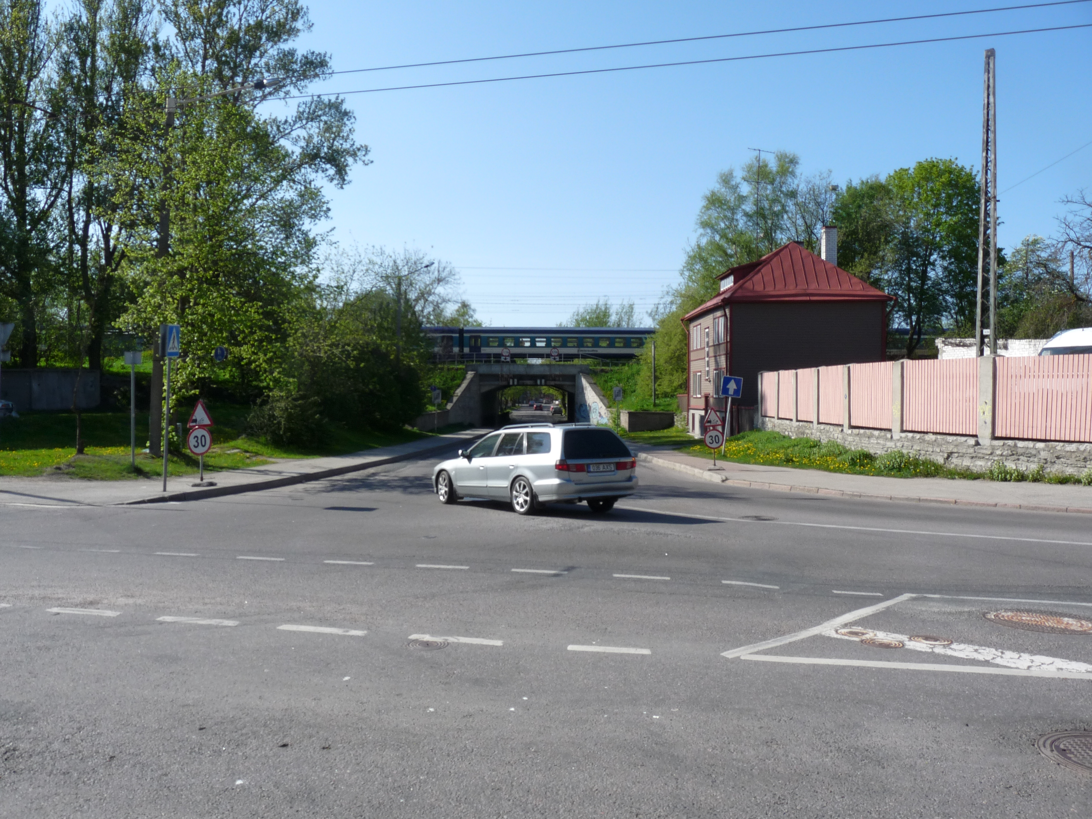 Intersection of Tehnika and Rohu streets in Tallinn